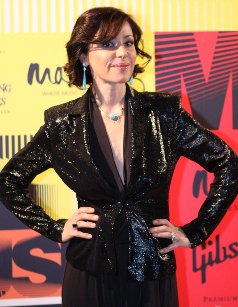 Tina Arena at the APRA Music Awards 2012.